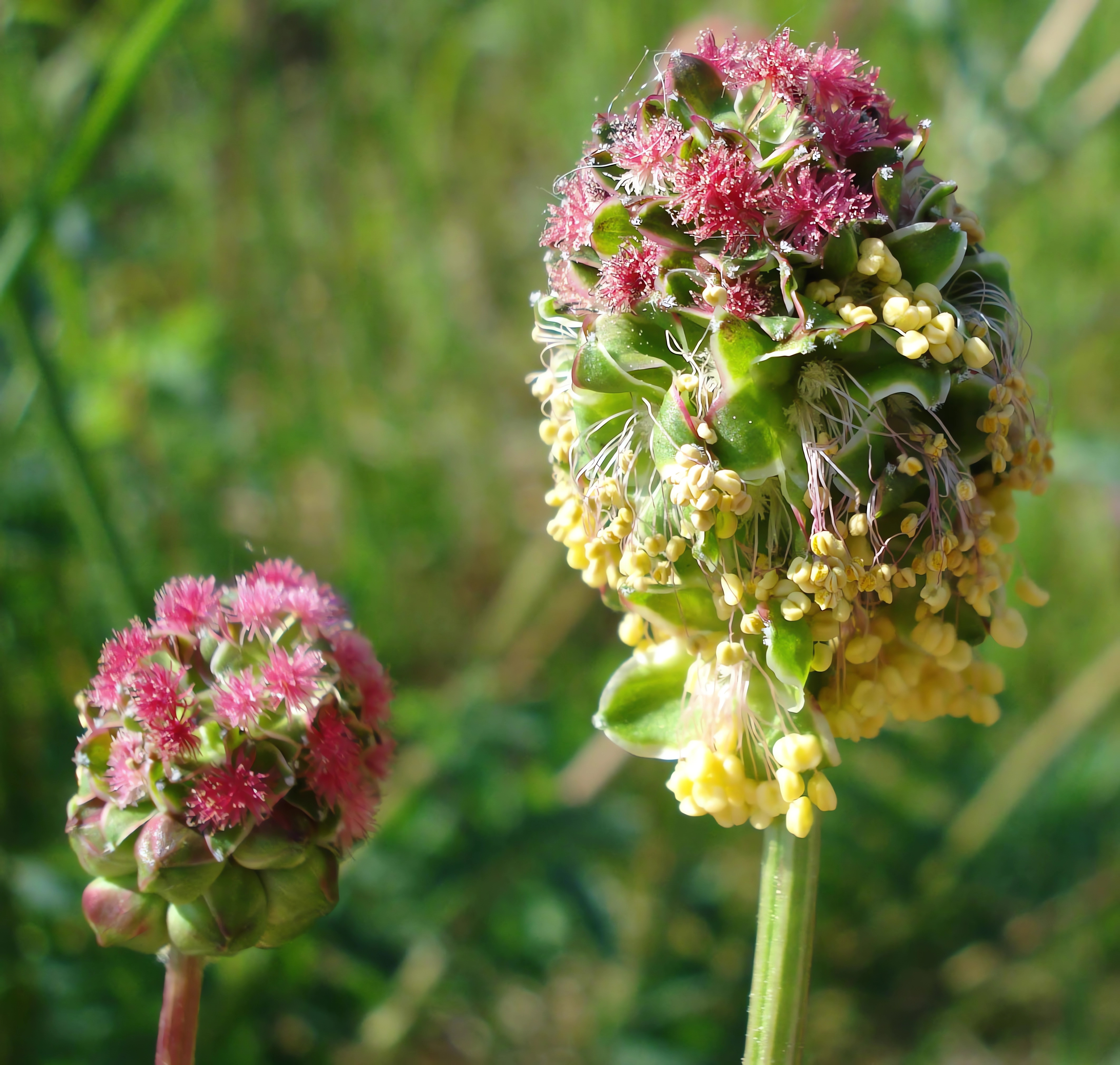 Sanguisorba minor (Unterfranken, Germany)